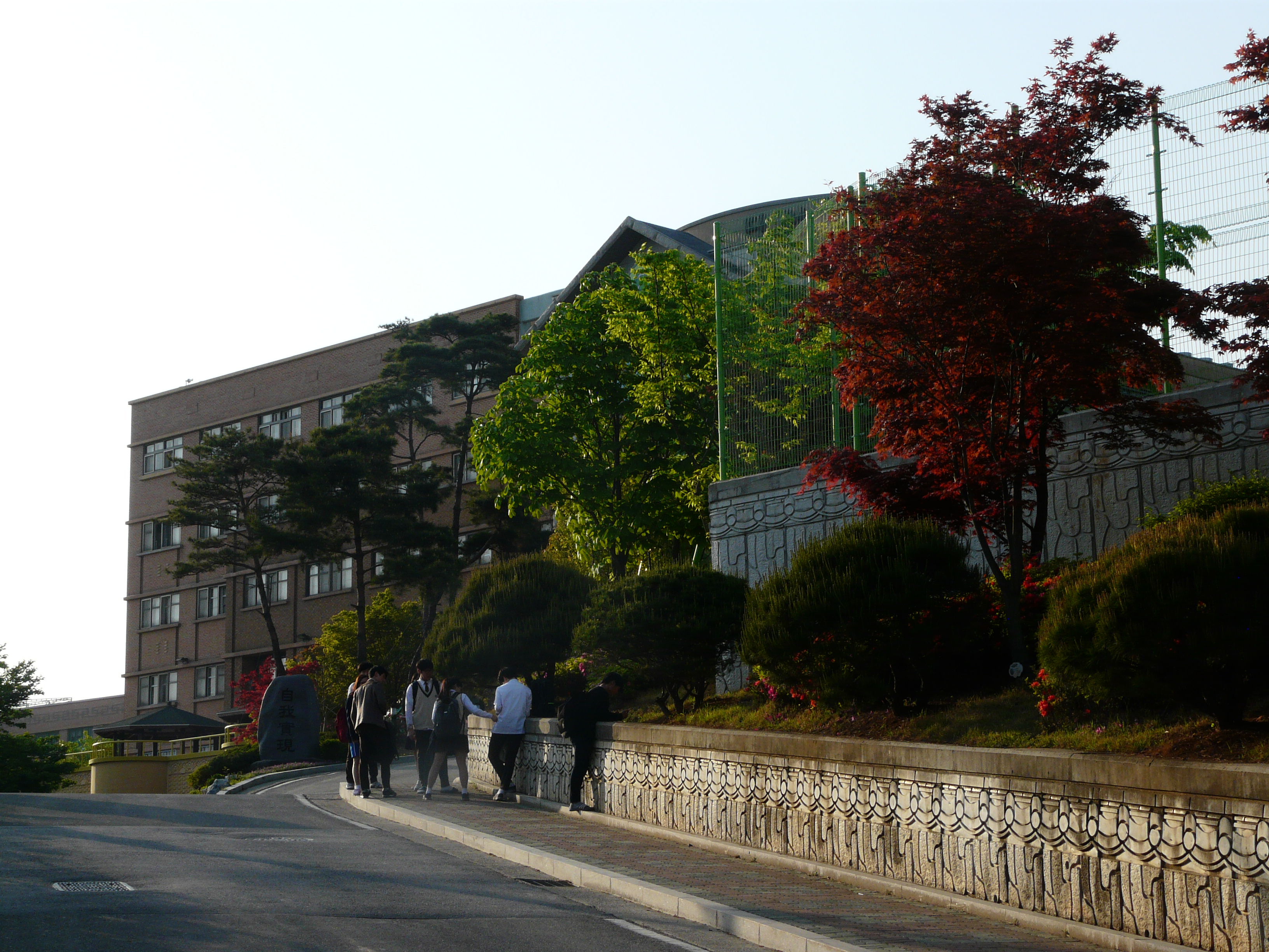 Danwon High School